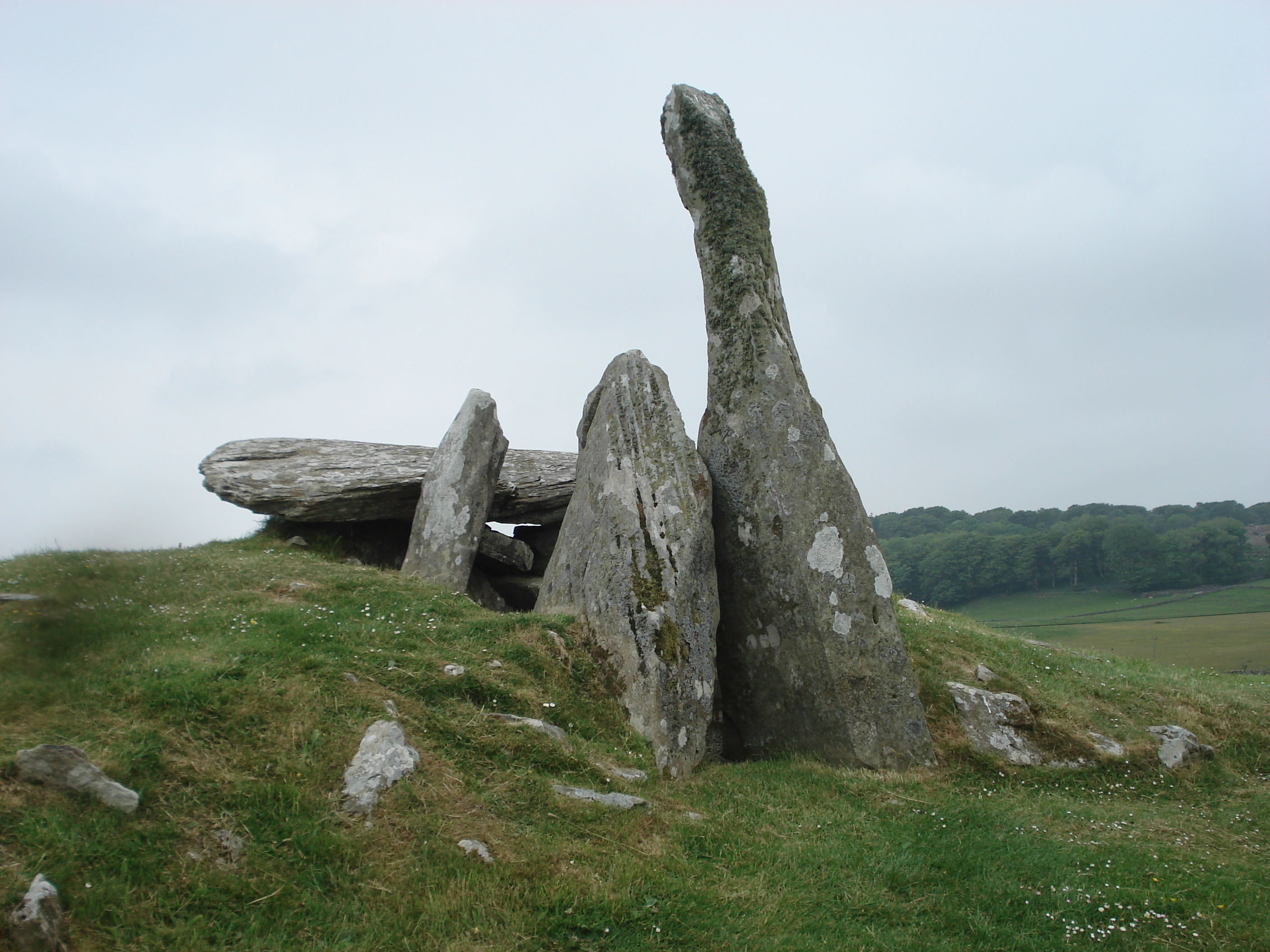 The remains of the neolithic chambered cairn "Cairn Holy II". Near Creetown, Kirkudbrightshire, Scotland. The site is mainained by Historic Scotland.